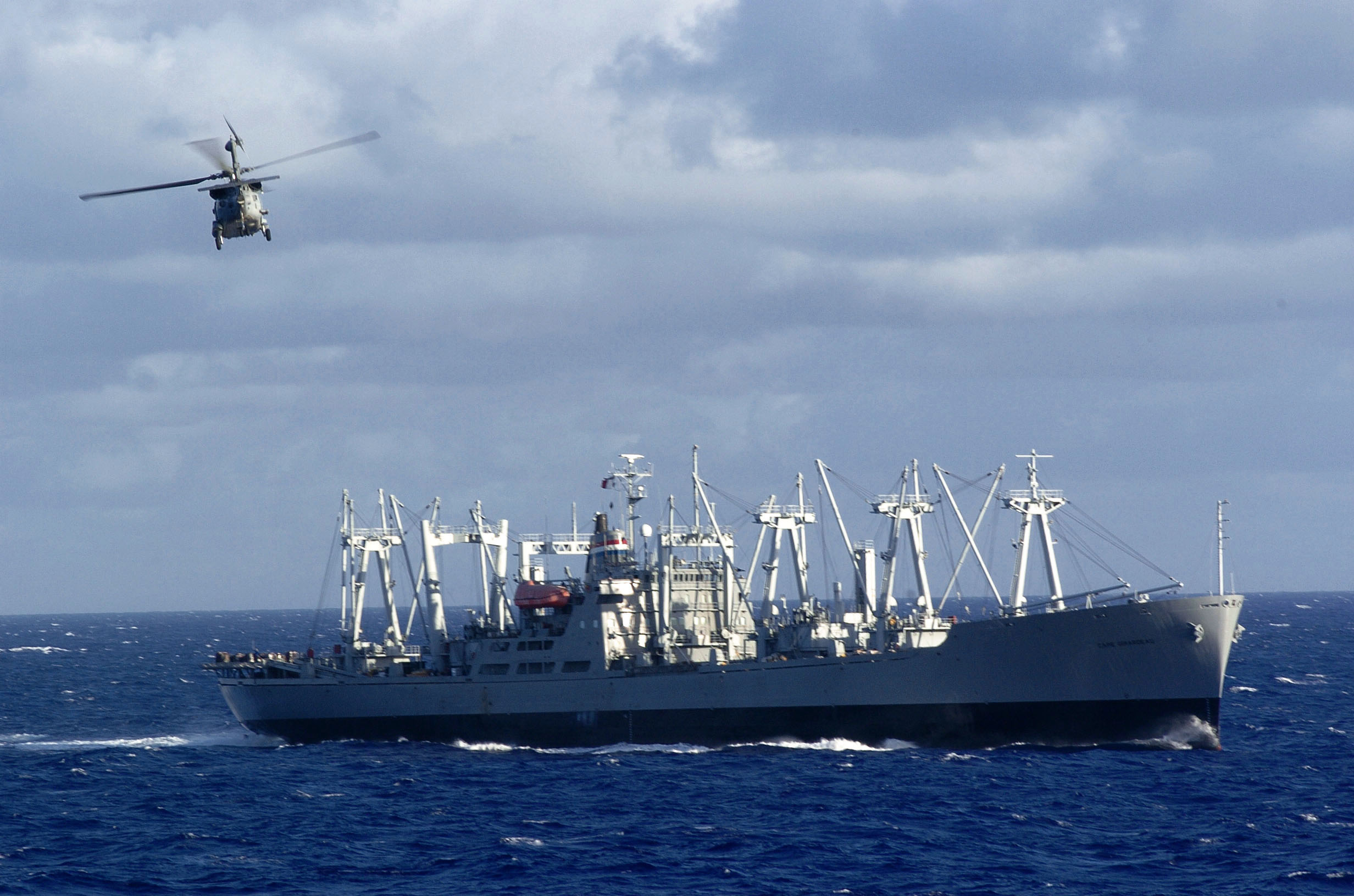 Pacific Ocean (July 16, 2004) - The modular cargo delivery system ship SS Cape Girardeau (T-AK 2039) steams with USS John C. Stennis (CVN 74) as an HH-60H Seahawk assigned to the "Black Knights" of Helicopter Anti-Submarine Squadron Four (HS-4) returns to pick up another load of supplies during a Vertical Replenishment (VERTREP). Cape Girardeau was recently removed from the "Mothball Fleet" to participate in exercises at sea. The crew of Cape Girardeau is comprised of Naval Reservists as well as civilian crewmembers. Stennis and Carrier Air Wing Fourteen (CVW-14) are taking part in Rim of the Pacific (RIMPAC) 2004. RIMPAC is the largest international maritime exercise in the waters around the Hawaiian Islands. This year's exercise includes seven participating nations; Australia, Canada, Chile, Japan, South Korea, United Kingdom and United States. RIMPAC is intended to enhance the tactical proficiency of participating units in a wide array of combined operations at sea, while enhancing stability in the Pacific Rim region. U.S. Navy photo by Photographer's Mate Airman Ron Reeves (RELEASED) For more information go to: /